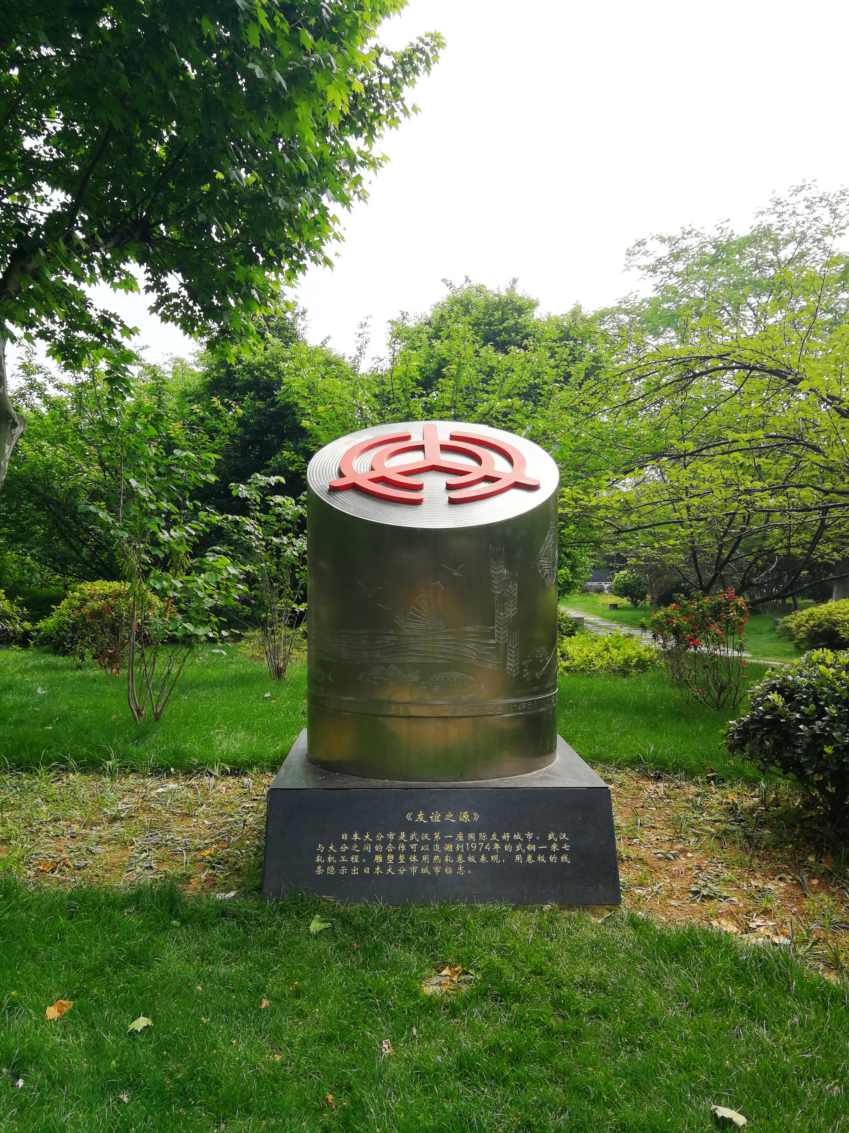 Source of friendship